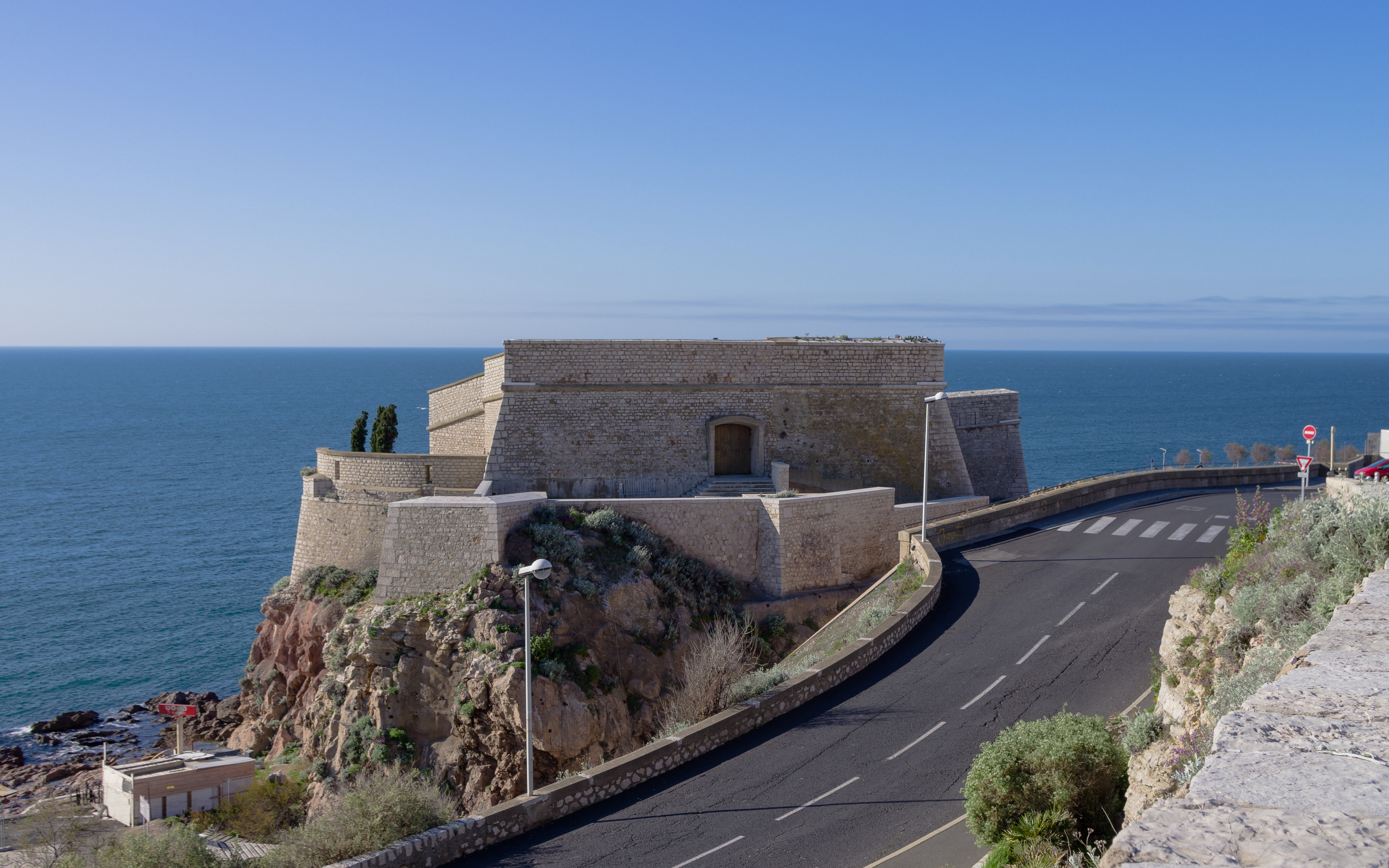 The Théâtre de la Mer formerly Fort Saint Pierre built between 1743 and 1746 by engineer NIQUET after the attempt of invasion by England in 1710, and in the background the Mediterranean Sea. View from north in the Grande Rue Haute. Sète, Hérault, France.